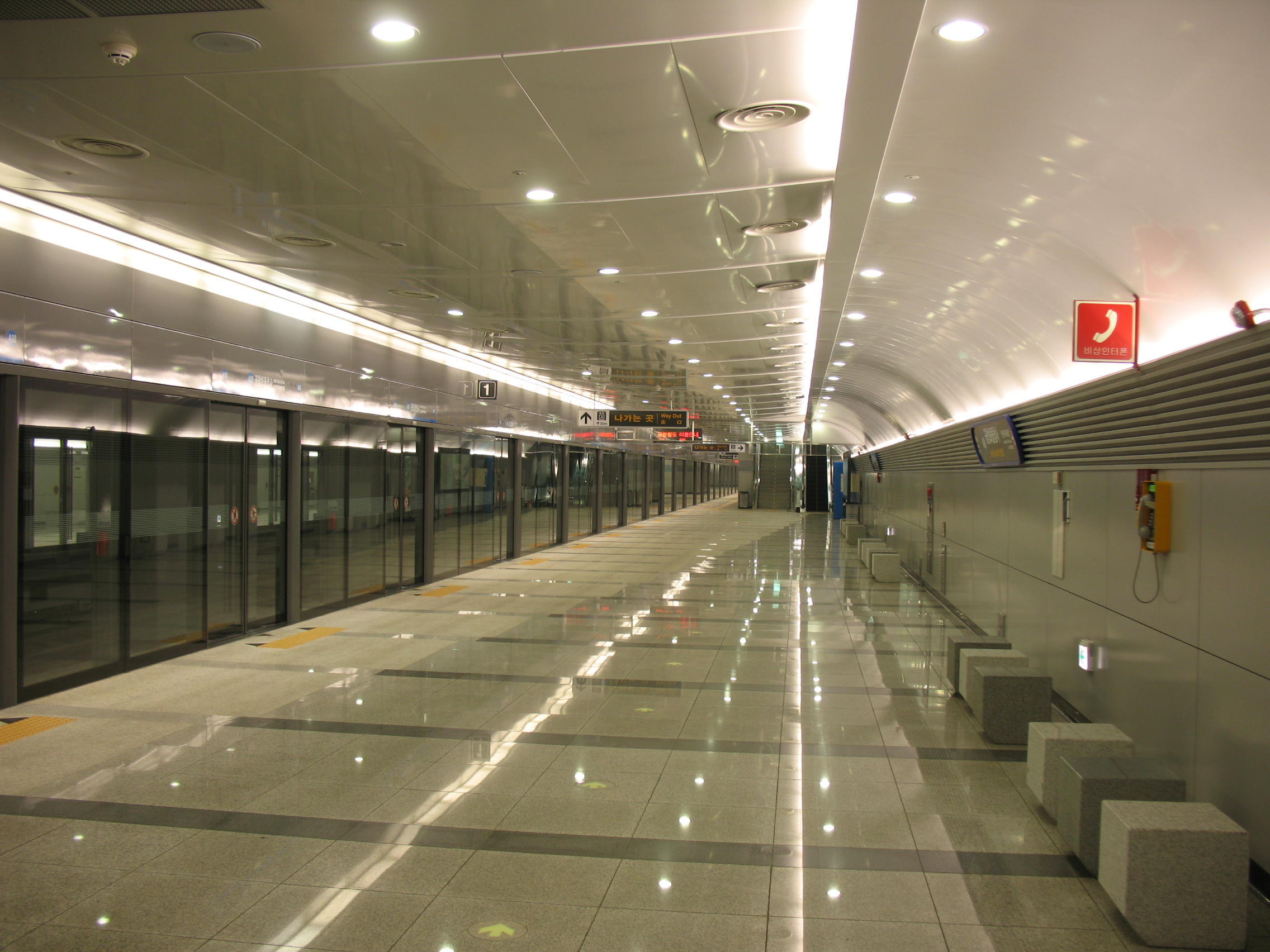 Incheon Int'l Airport Cargo Terminal Station platform.